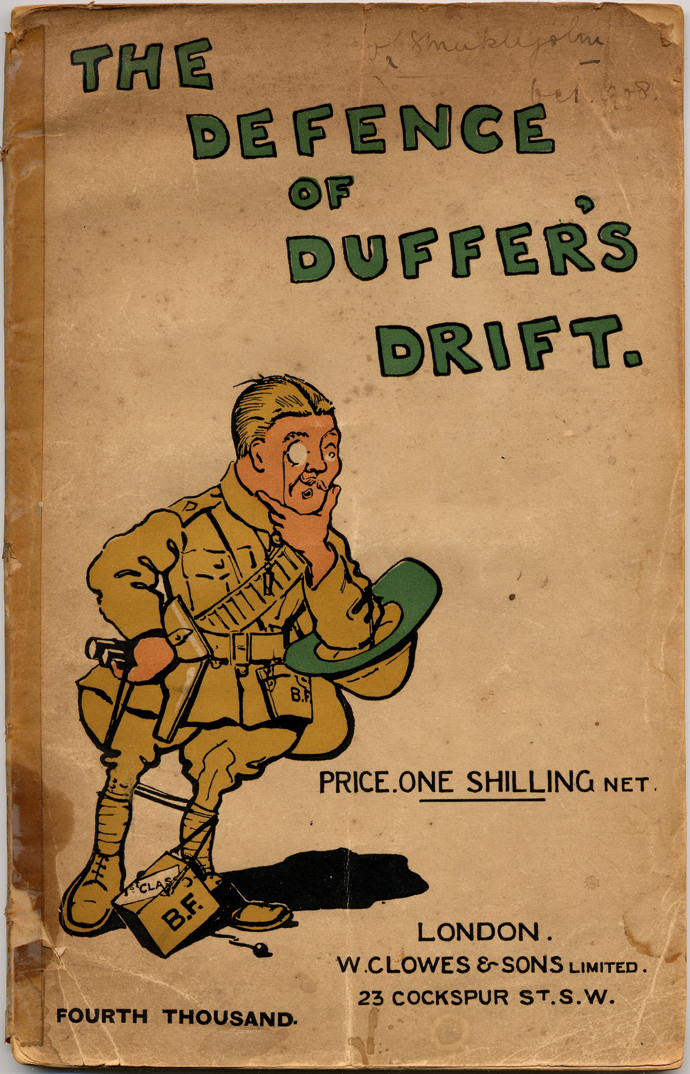 The Defence of Duffer's Drift, front cover. The book is attributed to a Lieutenant N. Backsight Forethought, otherwise known as Major General Sir Ernest Dunlop Swinton. First published 1904. This image of reprint of 4th thousand, 1907.